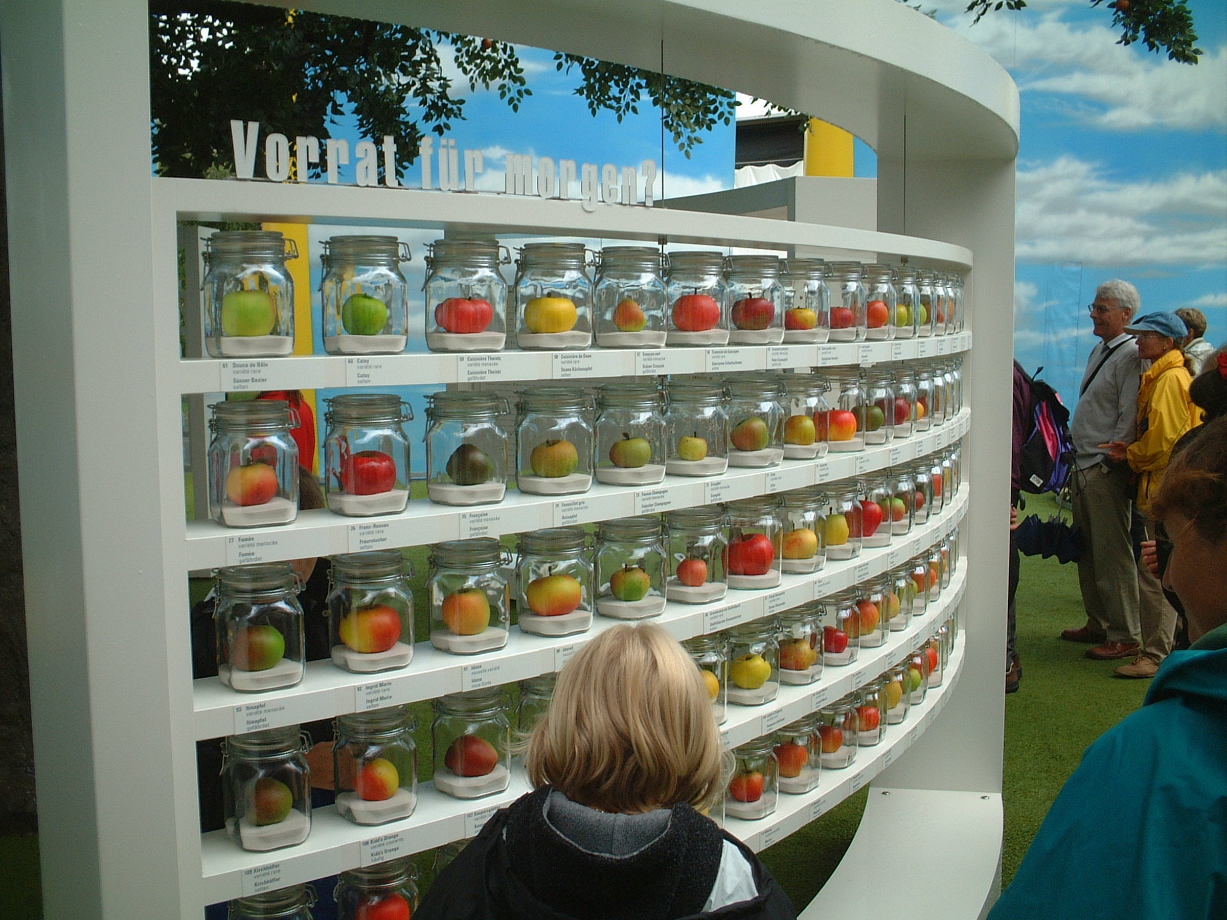 Expo.02 in Neuenburg, Yverdon, Biel and Murten (exact location see file name)